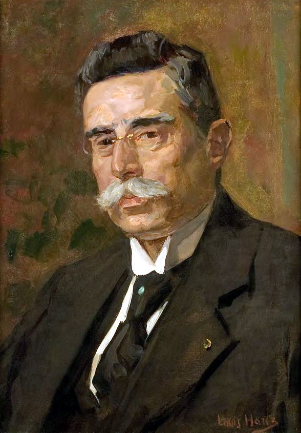 Leopold van Itallie (1866-1936), professor toxicology at Leiden University